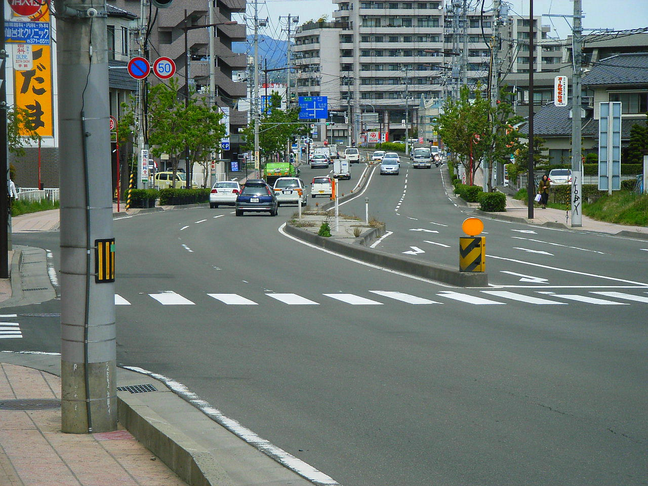 Miyagi Prefectural Road 37 Sendai-Kitakanjō Line. Sendai, Miyagi prefecture, Japan. Near the Yaotome Station.